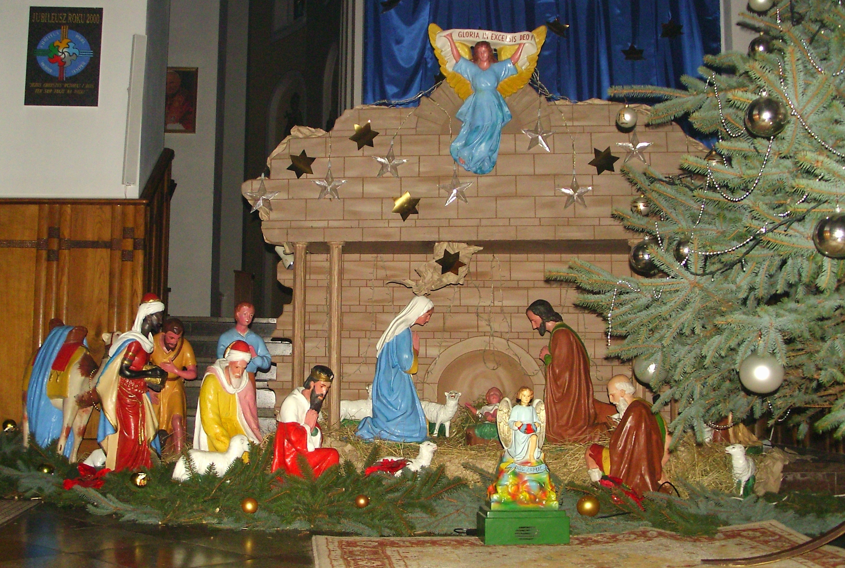 Nativity scene - Church in Baczal Dolny (Poland)